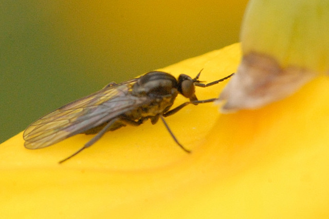 Hilara interstincta from Commanster, Belgian High Ardennes .